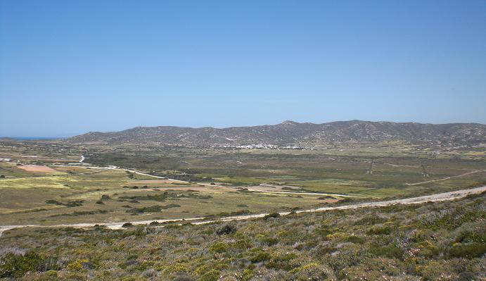 The plain of Kattavia, village in the distance and the area of the old Italian runway in the foreground.